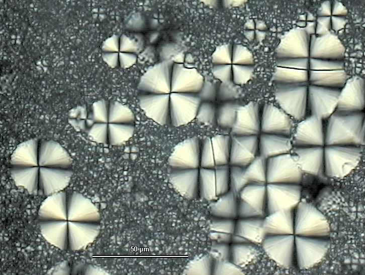 Spherulite in Polyamide 6.6 (microtome section 10µm